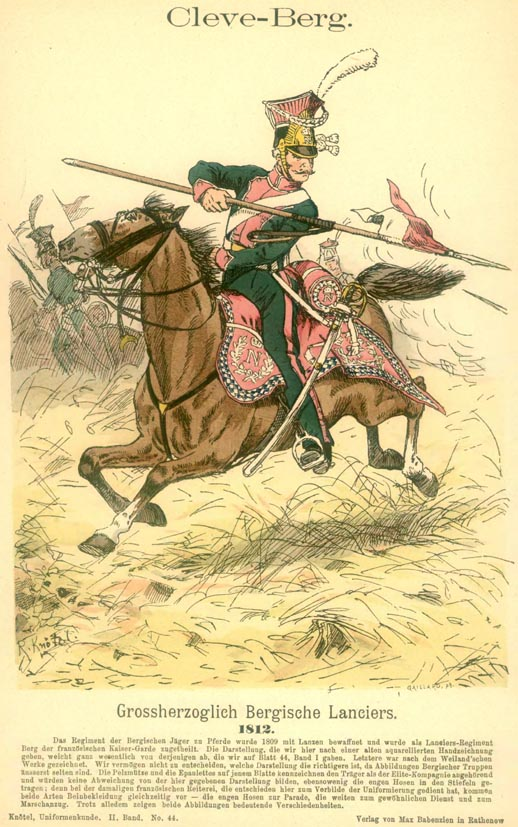 Cleve-Berg. Großherzoglich Bergische Lanciers. 1812